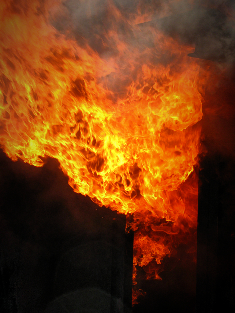 Firefighting exercise at Nordjysk Brand- og Redningsskole, Frederikshavn, Denmark